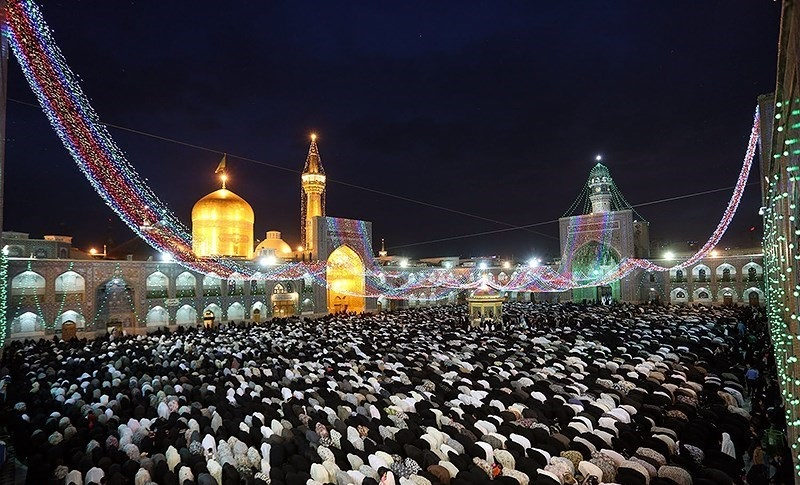 Imam Reza Shrine, Mashhad, Iran